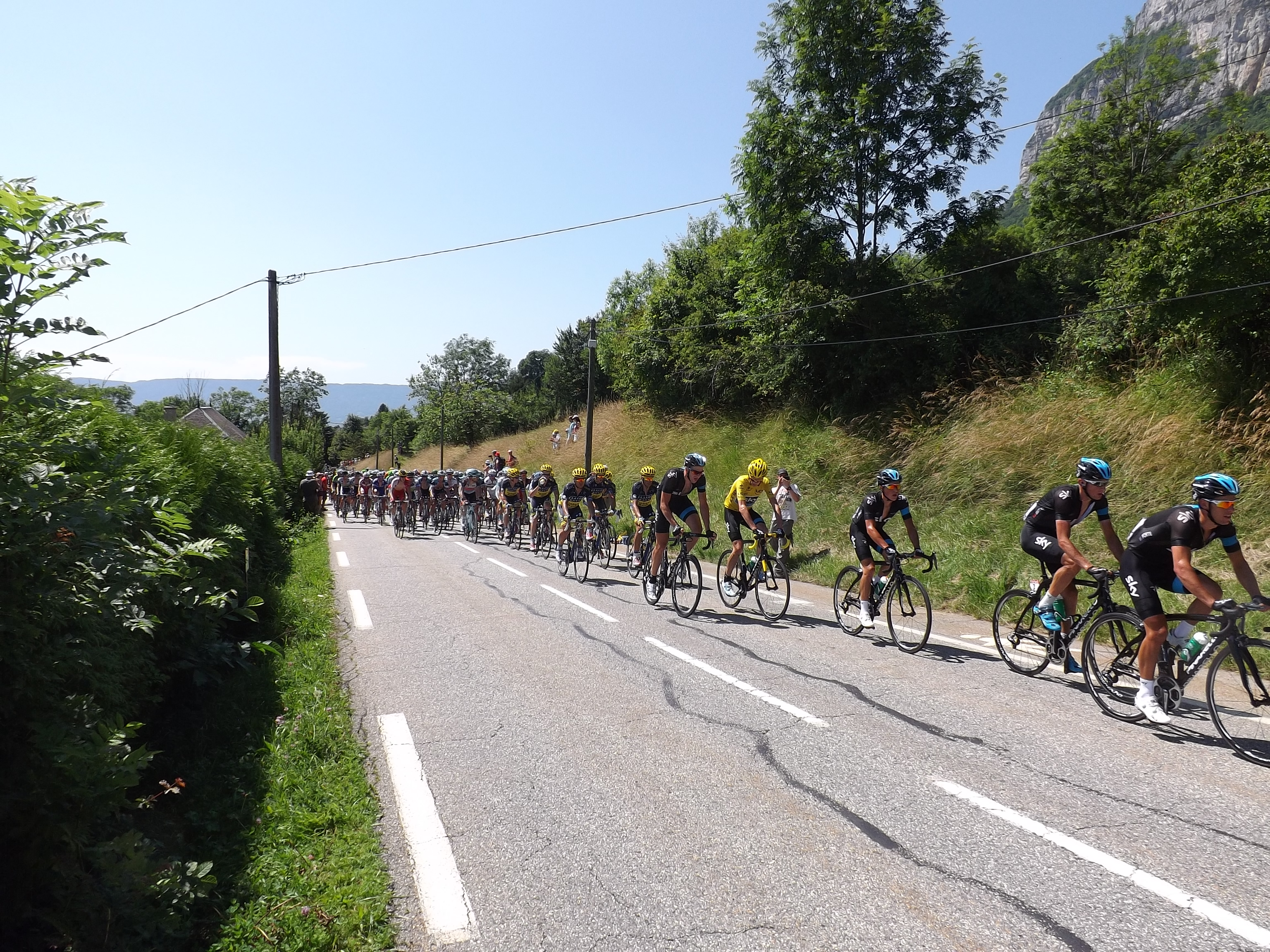 Sight of the Tour de France 2013 riders, passing at Saint-Jean-d'Arvey near Chambéry in Savoie (20th stage).